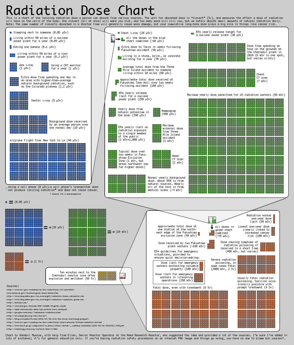 Radiation Dose Chart by Randall Munroe as part of the webcomic xkcd. In response to concerns about the radioactivity released by the Fukushima Daiichi nuclear disaster:Fukushima Daiichi nuclear disaster in 2011, and to remedy what he described as "confusing" reporting on radiation levels in the media, Munroe created a chart of comparative radiation exposure levels. The chart was rapidly adopted by print and online journalists in several countries, including being linked to by online writers for The Guardian[1] and The New York Times.[2] As a result of requests for permission to reprint the chart and to translate it into Japanese, Munroe placed it in the public domain, but requested that his non-expert status should be clearly stated in any reprinting.[3] ↑ Monbiot, George (2011-03-21). "Why Fukushima made me stop worrying and love nuclear power". The Guardian. ↑ Revkin, Andrew (2011-03-23). "The 'Dread to Risk' Ratio on Radiation and other Discontents". Dot Earth blog. The New York Times. ↑ Munroe, Randall. Radiation Chart. .